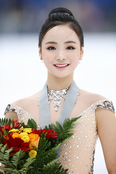 Lim Eun-soo at the 2019 Autumn Classic International - Awarding ceremony